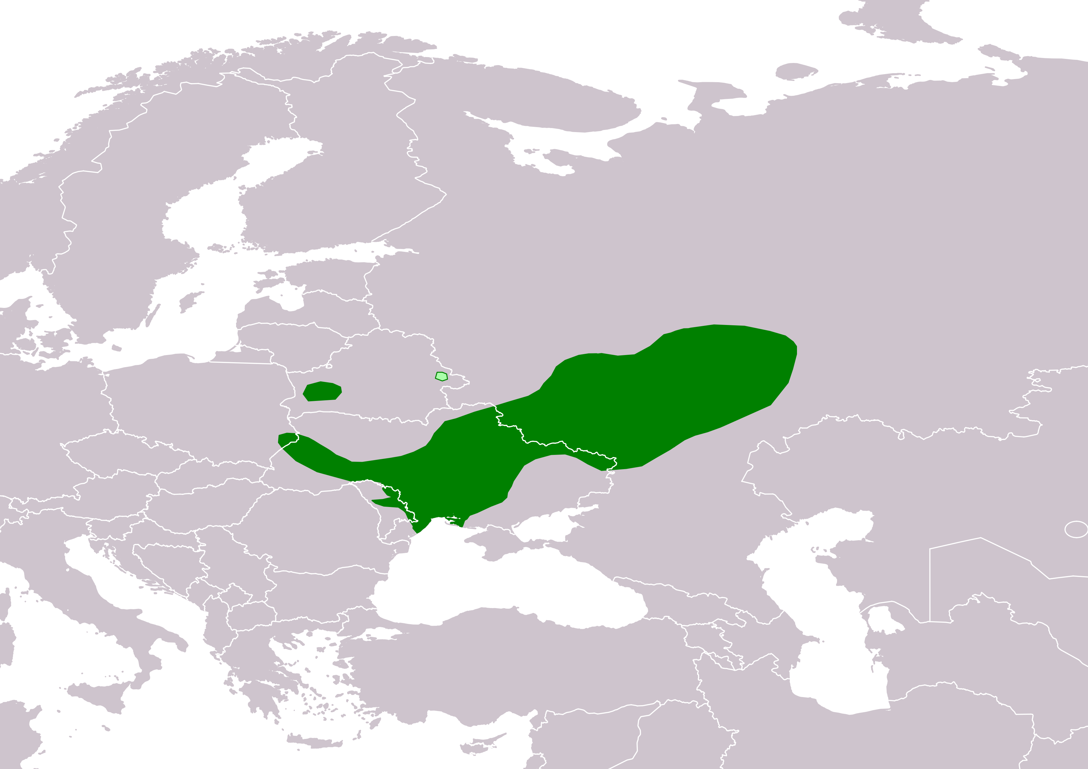 Map of speckled ground squirrel (Spermophilus suslicus) according to IUCN version 2018.2 , Legend: Extant, resident (#008000) Probably Extant, resident (#AAFFAA)